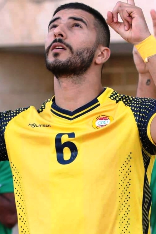 Hussein El Zein at Al Ahed in 2019